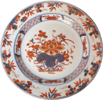 Photo of a chinese Imari (middle of the XVIIIth century). Photo by Georges Le Gars.